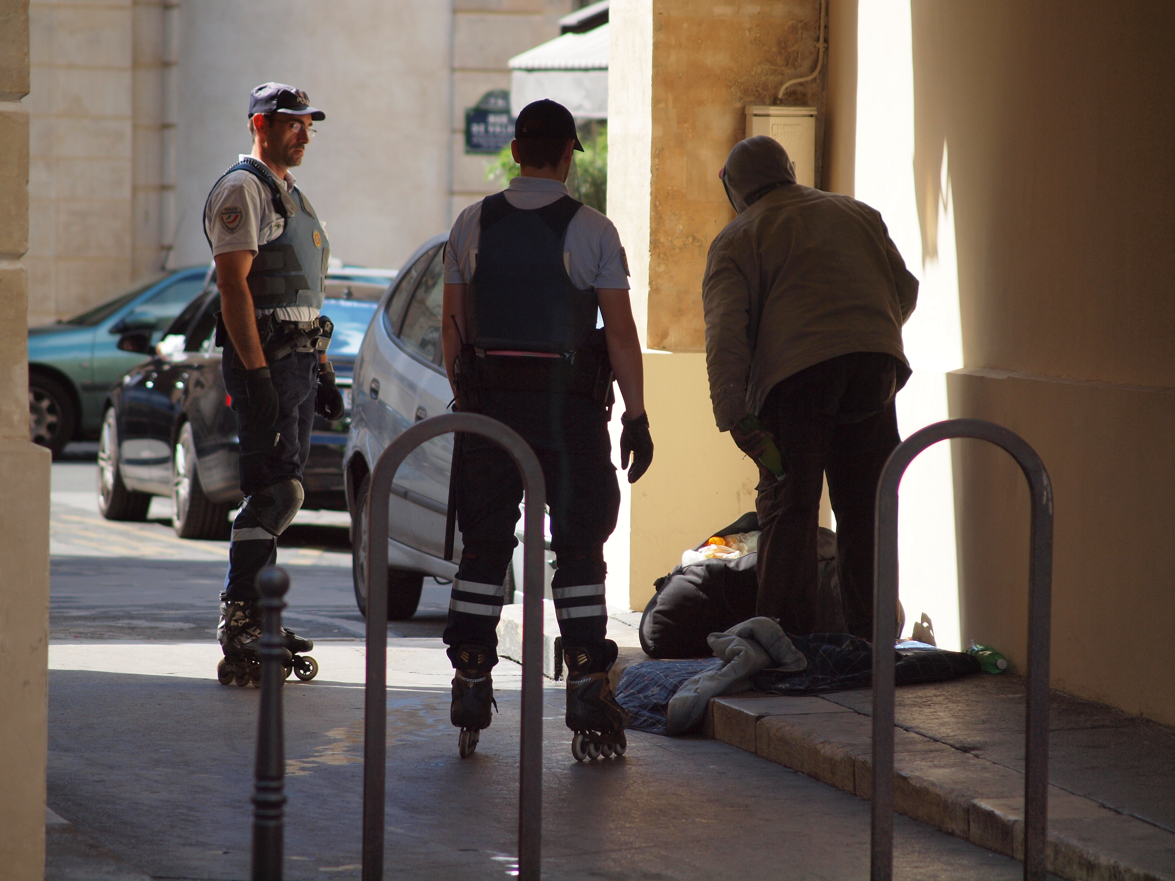 Police on inline skates moving a tramp along in Paris, France.